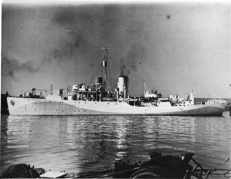 HMS Wallflower Under tow on the Tyne.